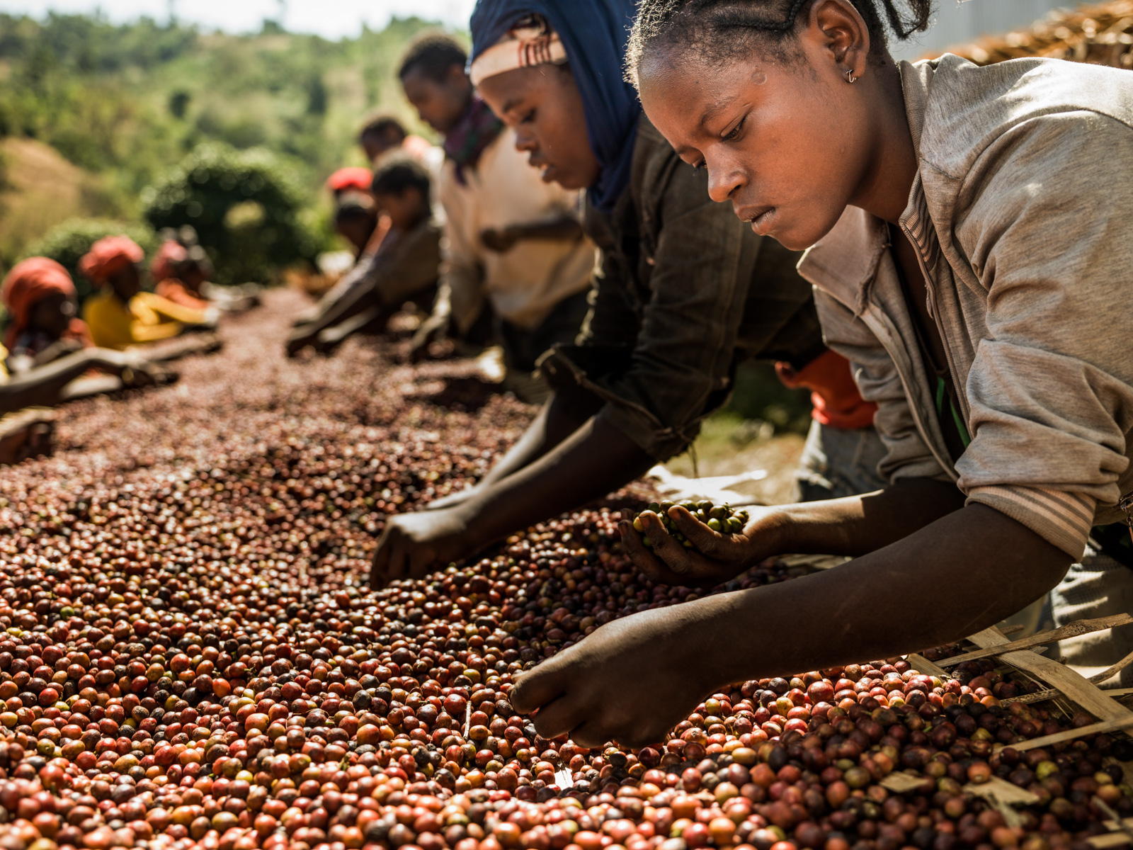 Coffee sorting process, near Hawassa. This is an image of "African people at work" from Ethiopia